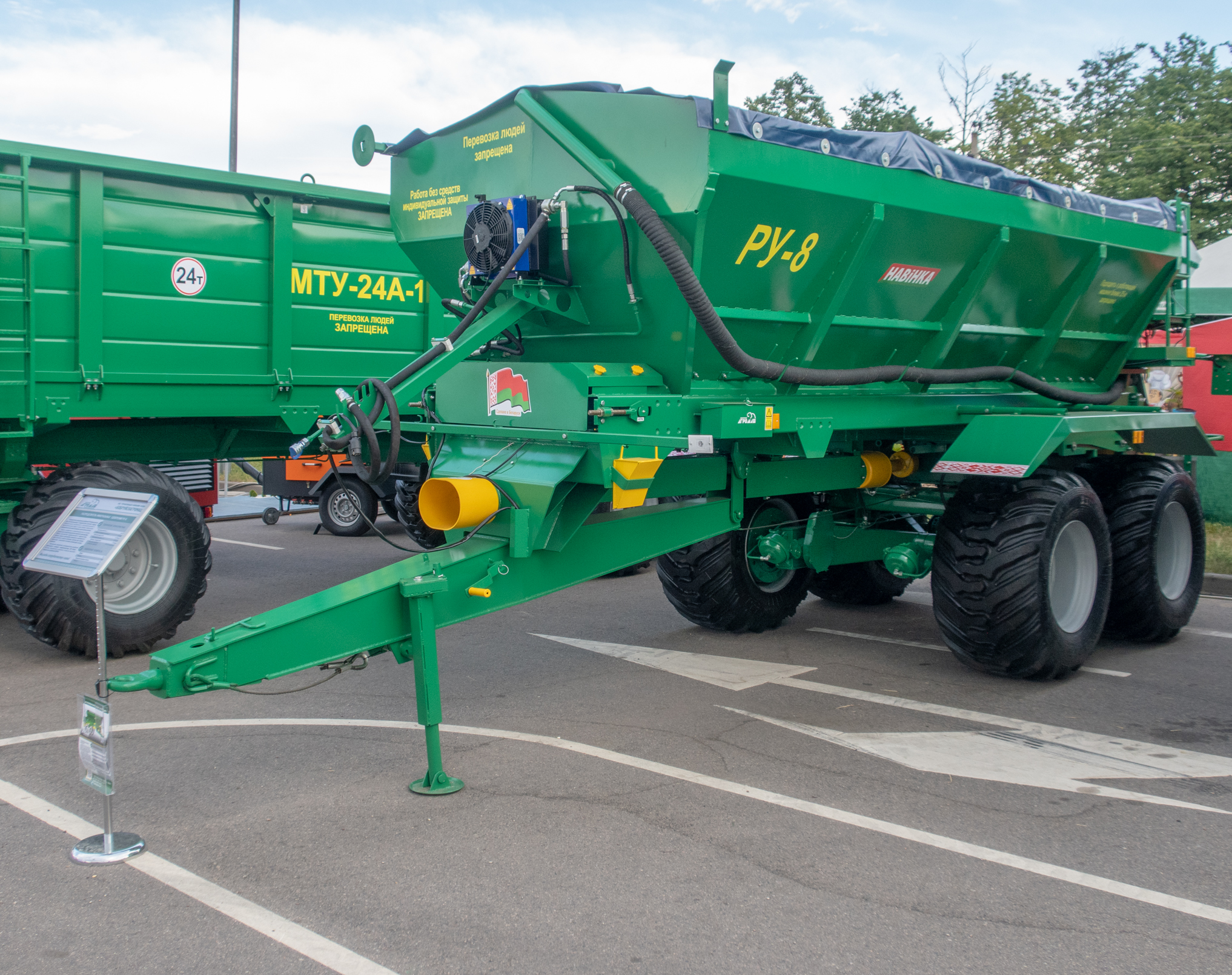 Photo taken at Belagro-2019 exhibition (Minsk district, Belarus)